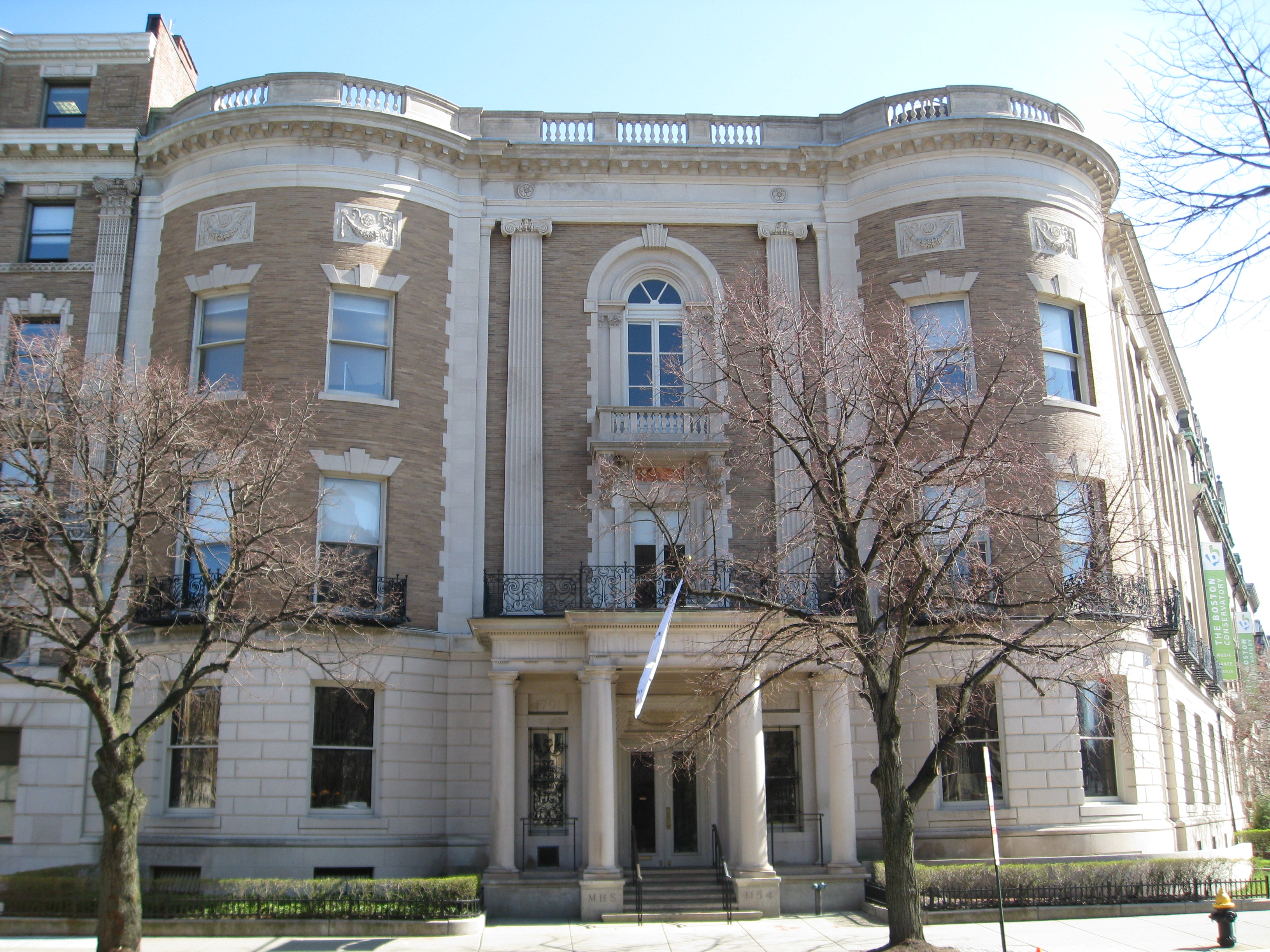 Massachusetts Historical Society headquarters, Boston